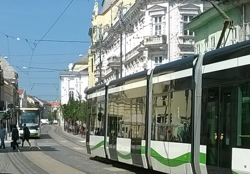 Škoda trams in Miskolc, Hungary, 2015